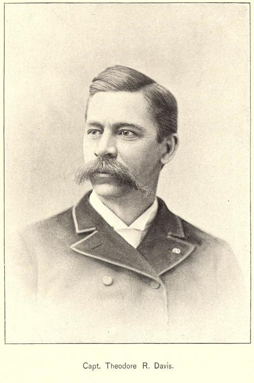 Capt. Theodore Rich Davis (1839-1890), 15th Connecticut Volunteer Infantry from The history of the Fifteenth Connecticut Volunteers in the War of the Defense of the Union, 1861-1865 by Thorpe, Sheldon Brainerd. New Haven, The Price, Lee & Adkins Co., 1893. Died at Brooklyn, N.Y., January 12, 1890, aged 50 years.